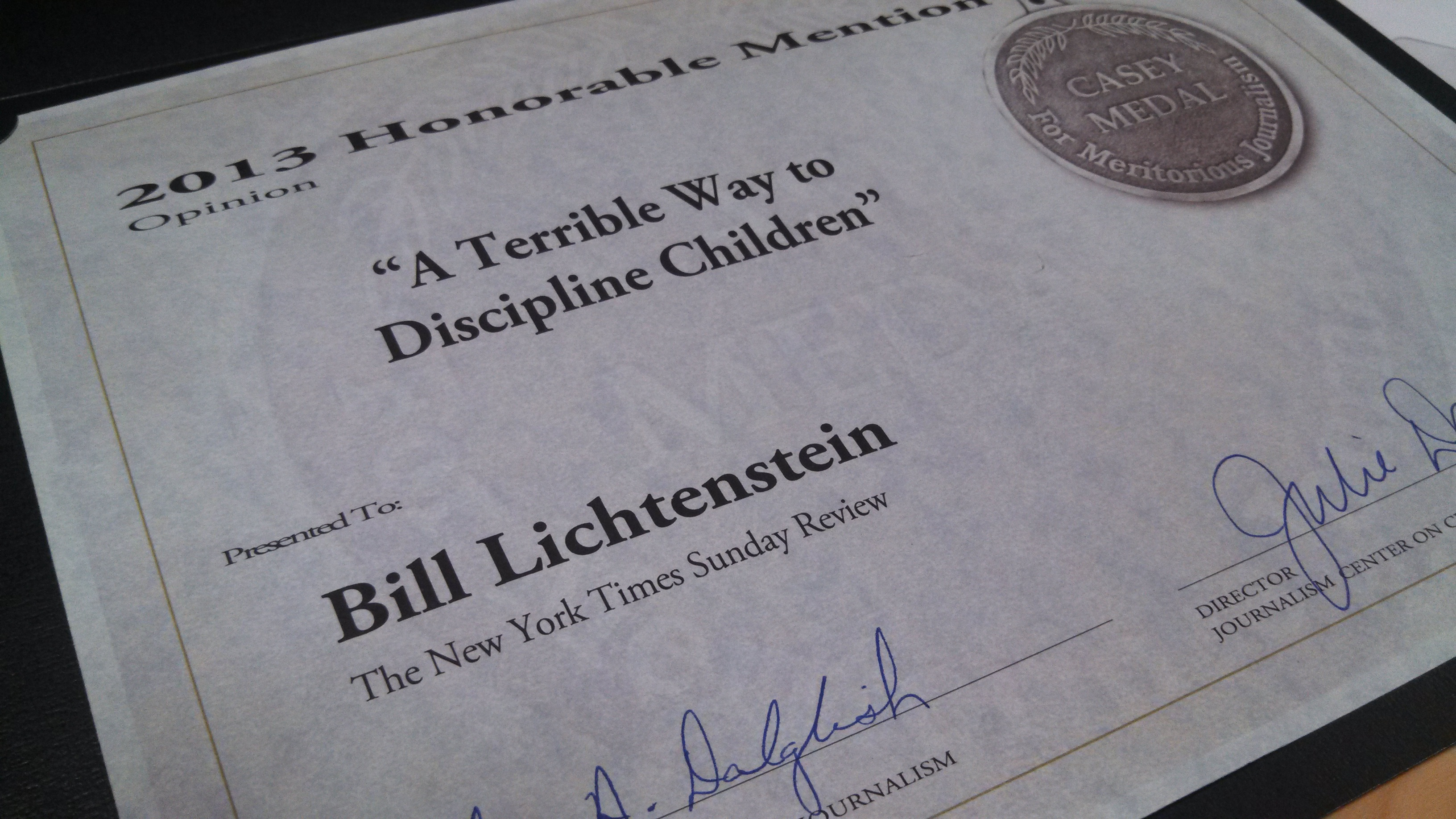 Photo of Casey Medals honor for article.